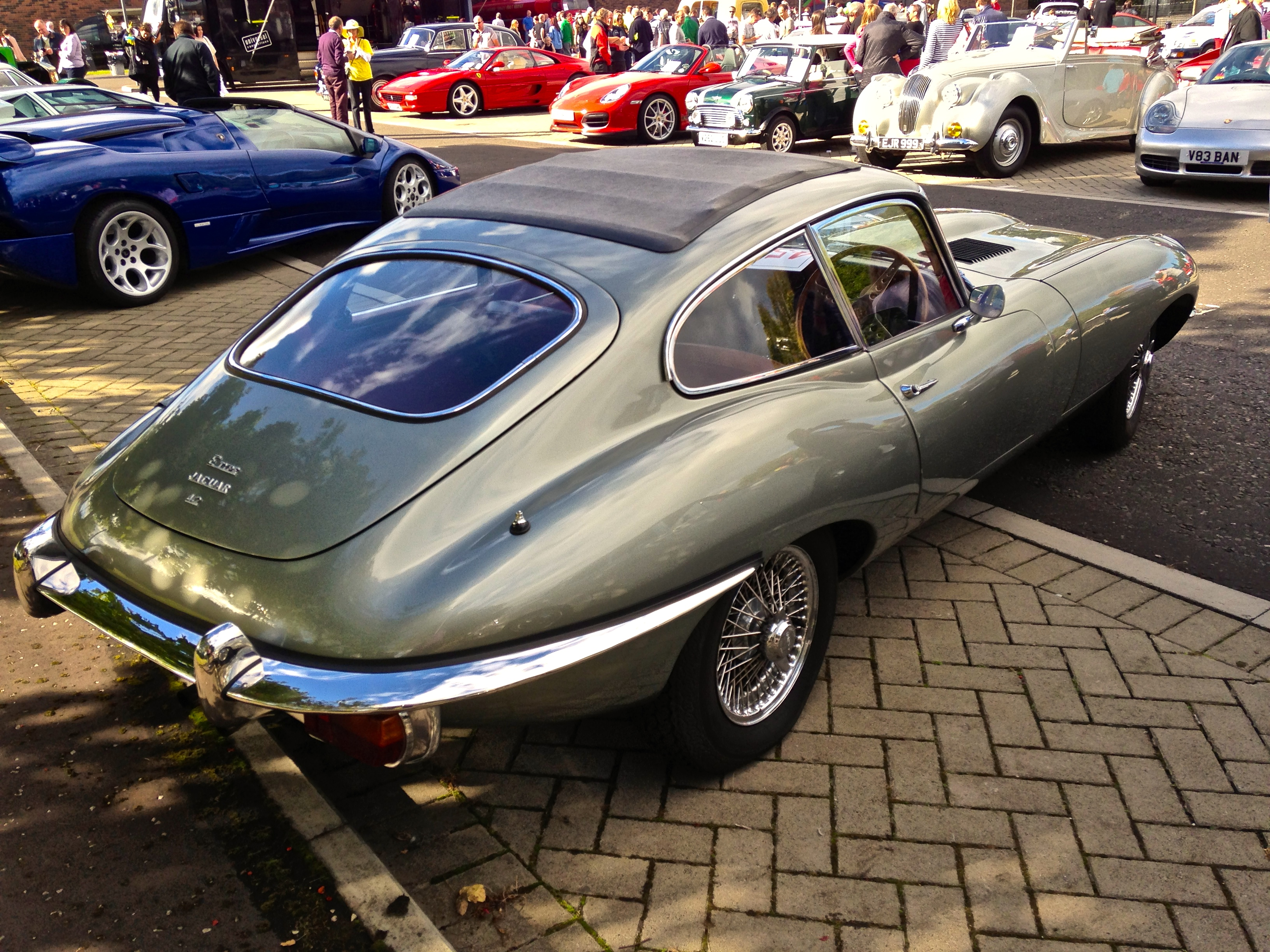 A Jaguar E-Type at the Bothwell Festival of Transport, as part of the Bothwell Scarecrow Festival